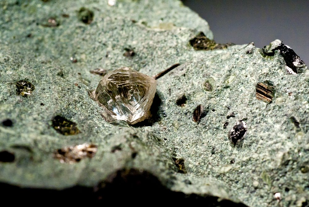 Octahedral, approx. 1.8 carat (6 mm), diamond crystal in kimberlite matrix from Finsch Diamond Mine, South Africa.